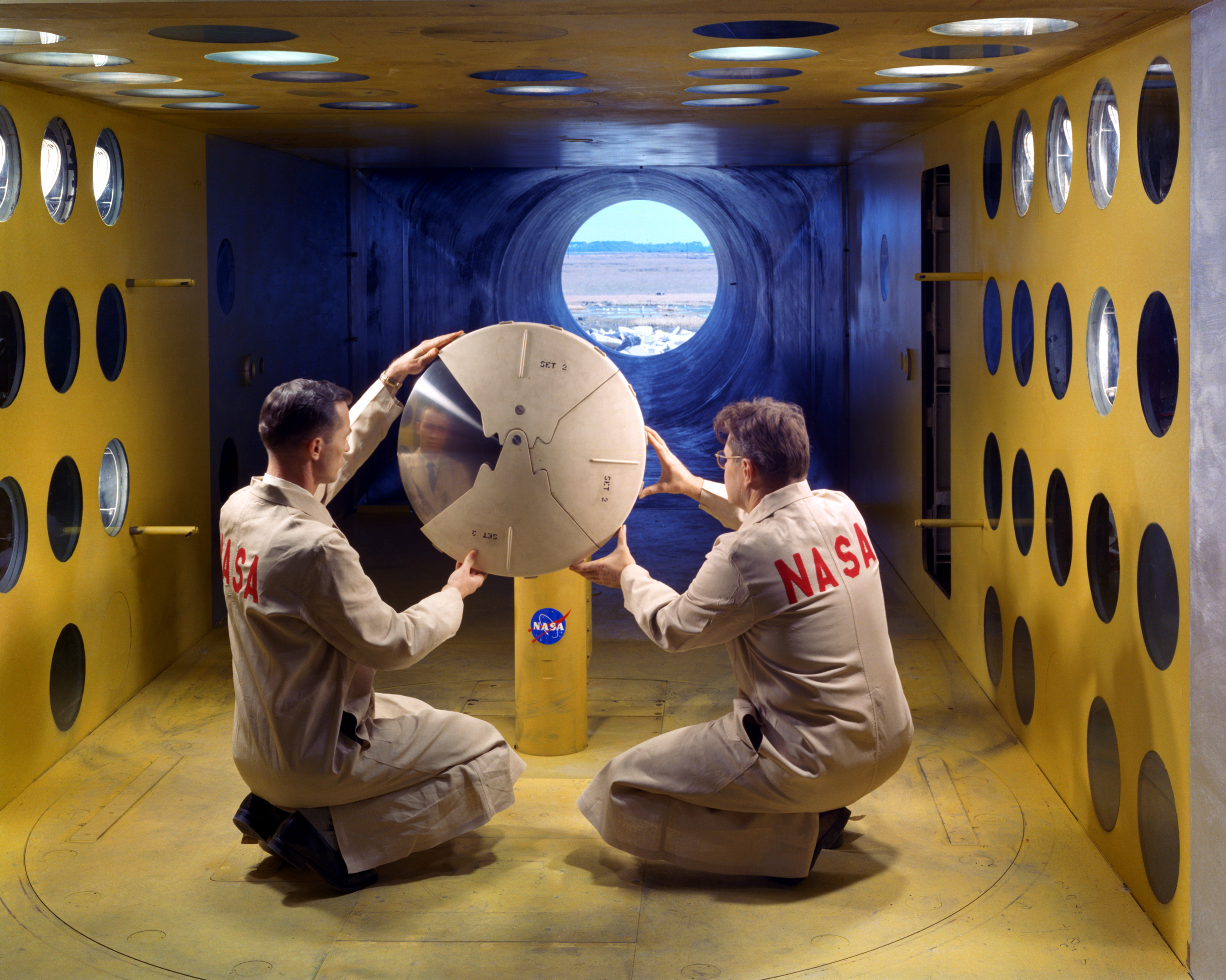 As part of the Project Fire study, technicians ready materials to be subjected to high temperatures that will simulate the effects of re-entry heating. Photographed in the 9 X 6 Foot Thermal Structures Tunnel.